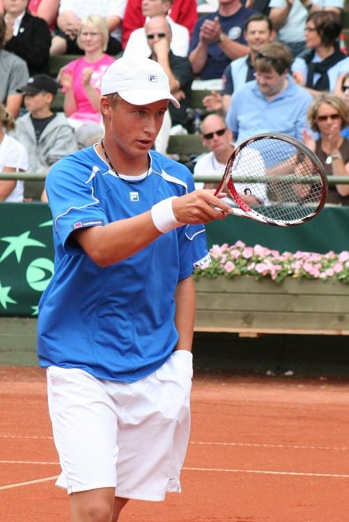 Finnish tennis player Henri Kontinen playing Davis Cup against Luxemburg in Hanko, Finland in July 2008. Photo by Jonny Smeds.